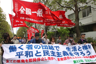 NUGW, including Nambu University Teachers Union members on May Day 2011